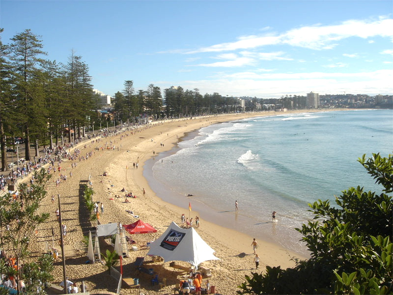 A view of Manly Beach looking North from above the Manly Surf Lifesaving Club at the Southern end of the beach. Personally taken photo released into the public domain....